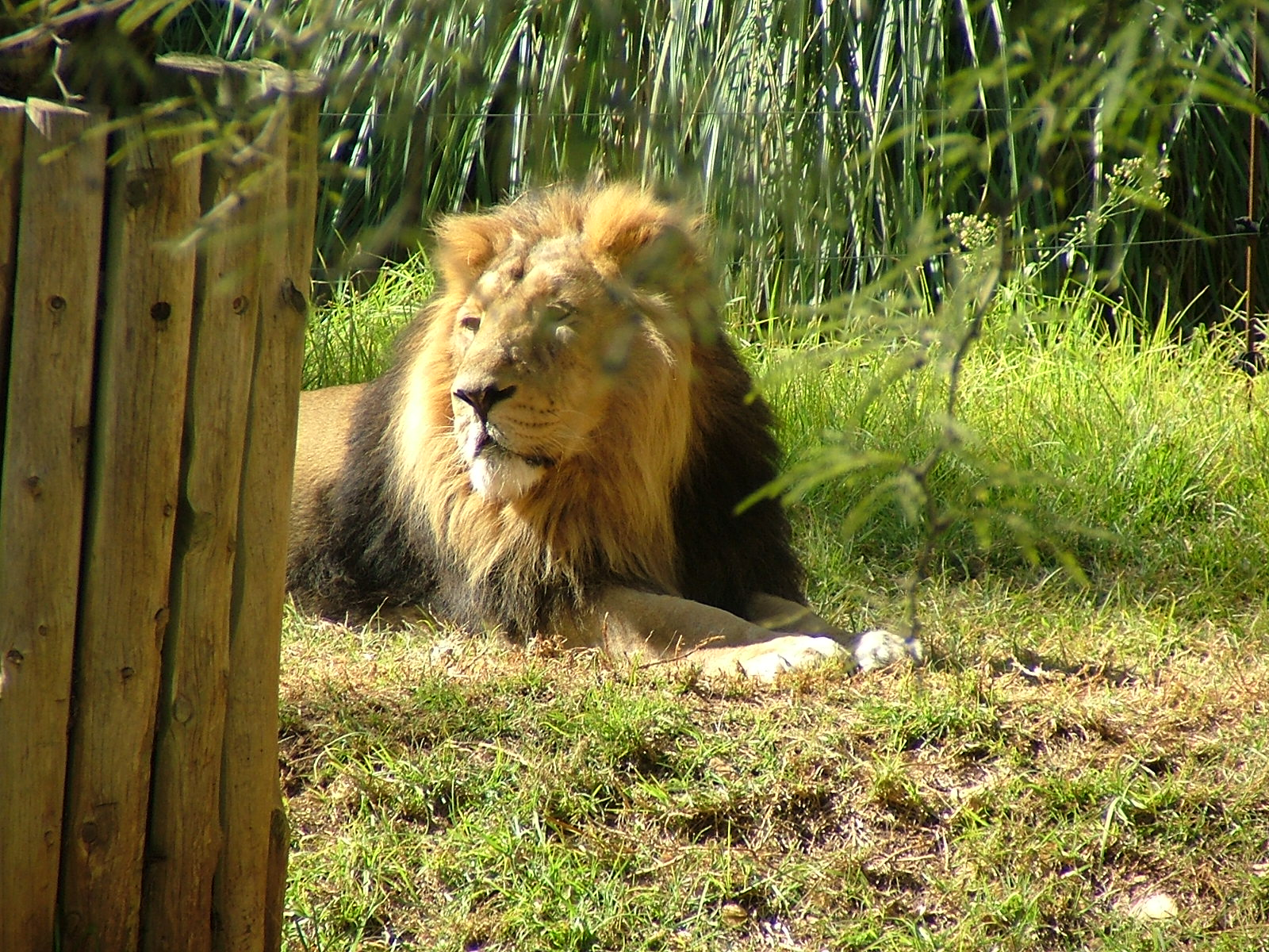 An Asiatic Lion (Panthera leo persica) at the Jerusalem Biblical Zoo.